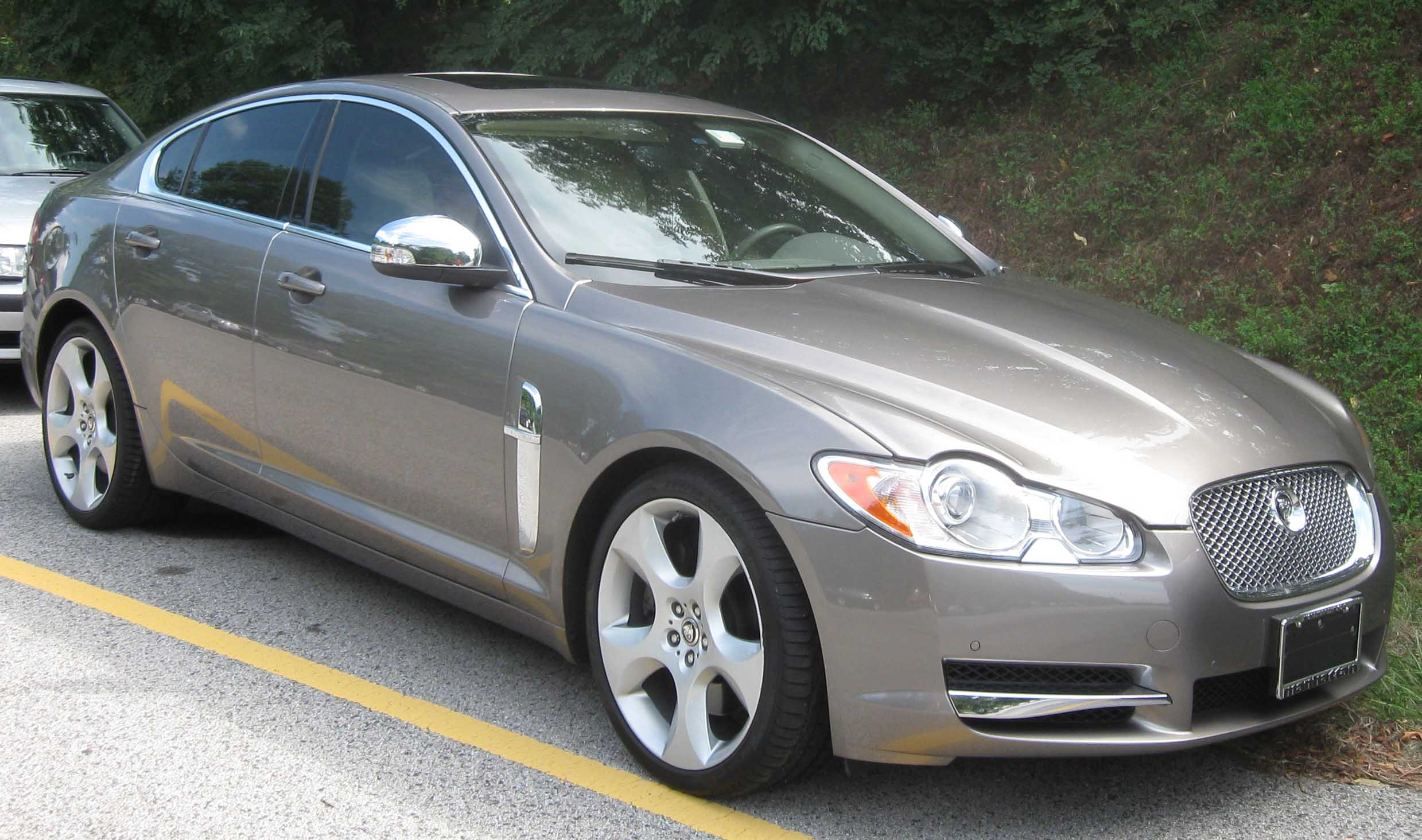 2009 Jaguar XF photographed in College Park, Maryland, USA.